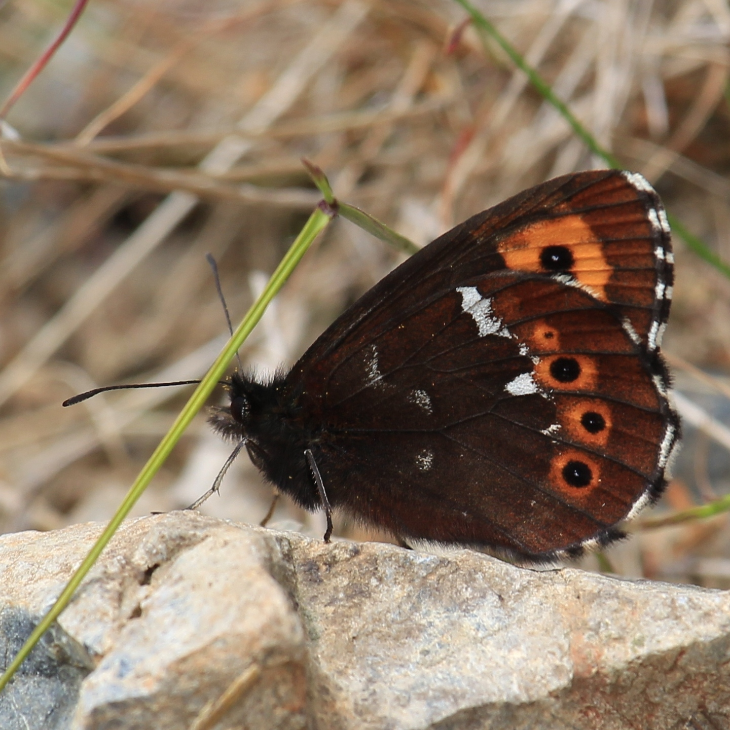 Erebia ligea takanonis in Mount Hijiri, Akaishi Mountains, Iida, Nagano Prefcture, Japan.